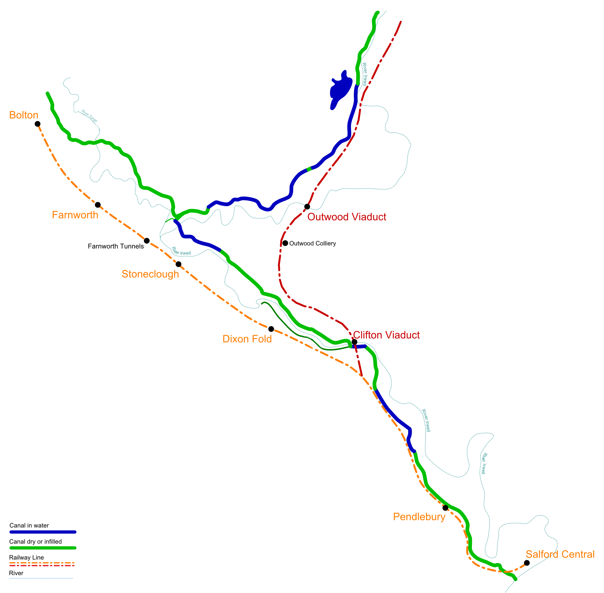 A map of the original layout and stations for the Manchester and Bolton Railway, with the East Lancs line added for reference. The Manchester Bolton & Bury Canal is also shown, blue areas are in water, green areas are dry/infilled/demolished.